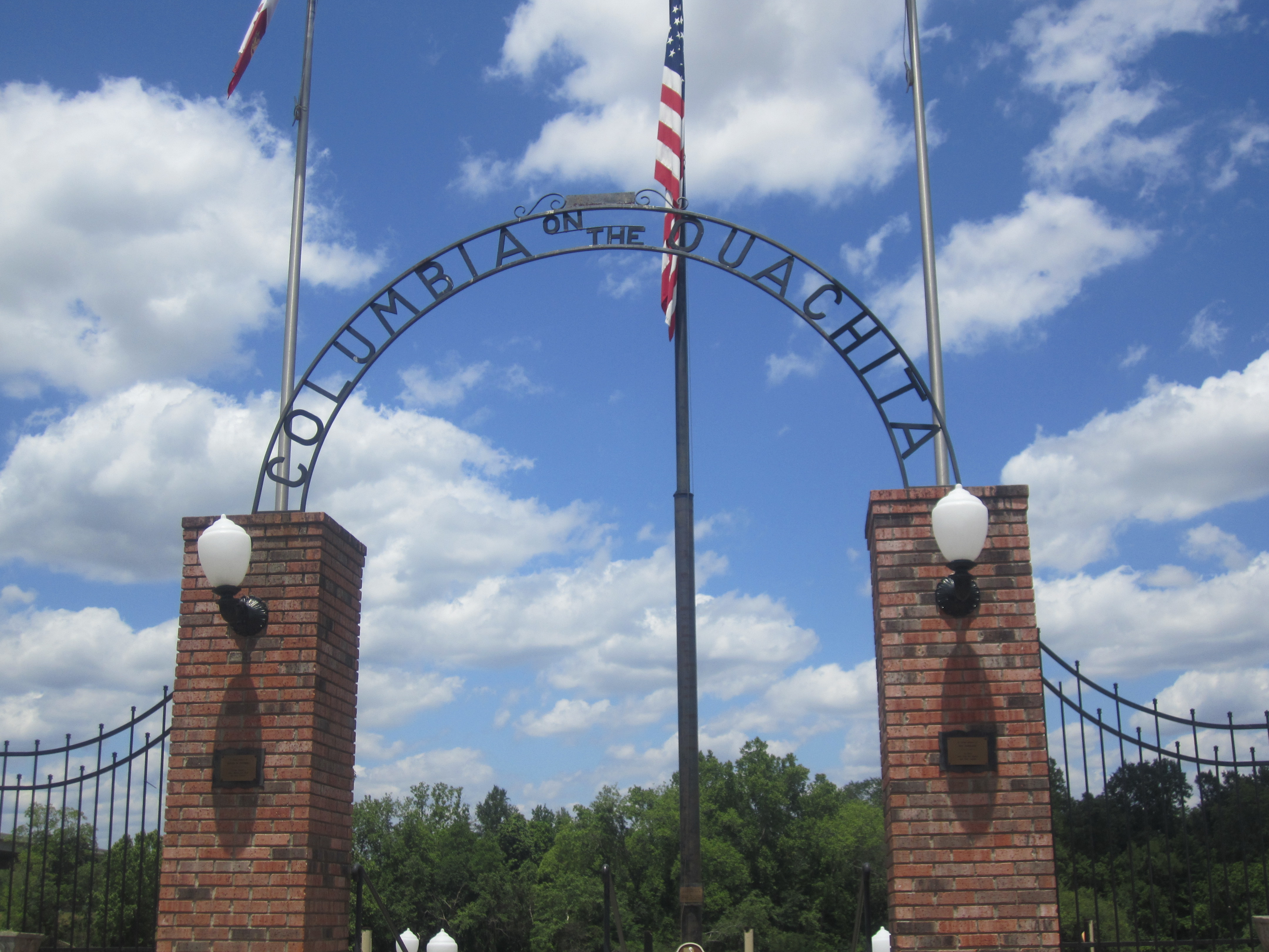 I took photo of gateway to Ouachita River at Columbia, LA, with Canon camera.